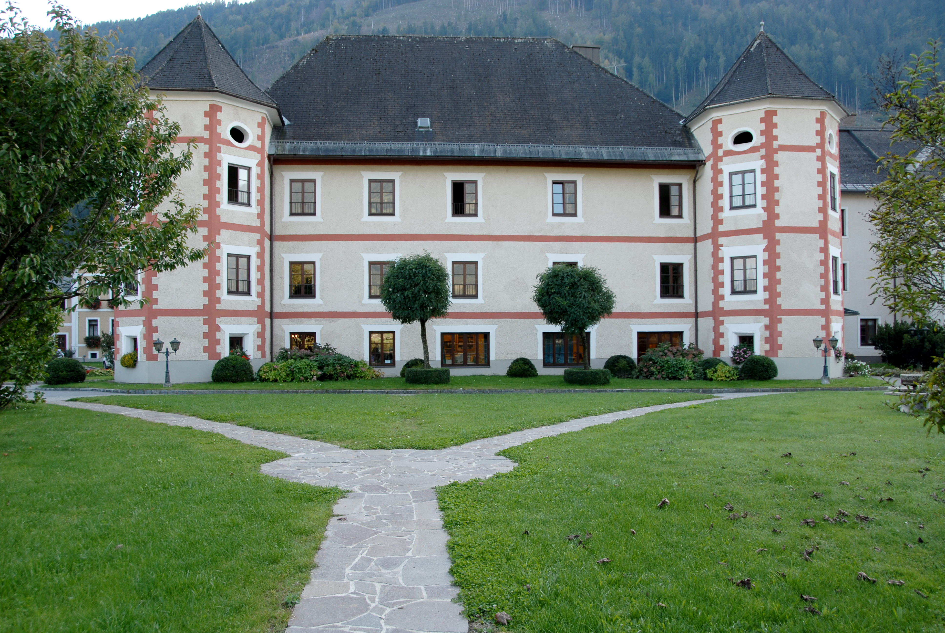 Castle Drauhofen in the community of Lurnfeld, Carinthia, Austria